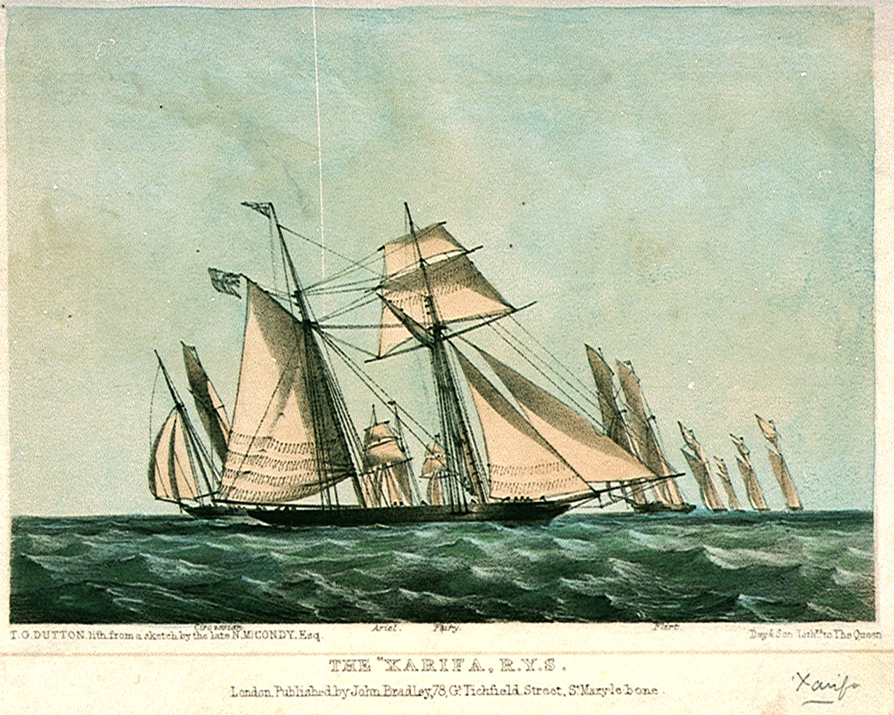 lithograph by T.G. Dutton after a skech of Nicholas Matthews Condy